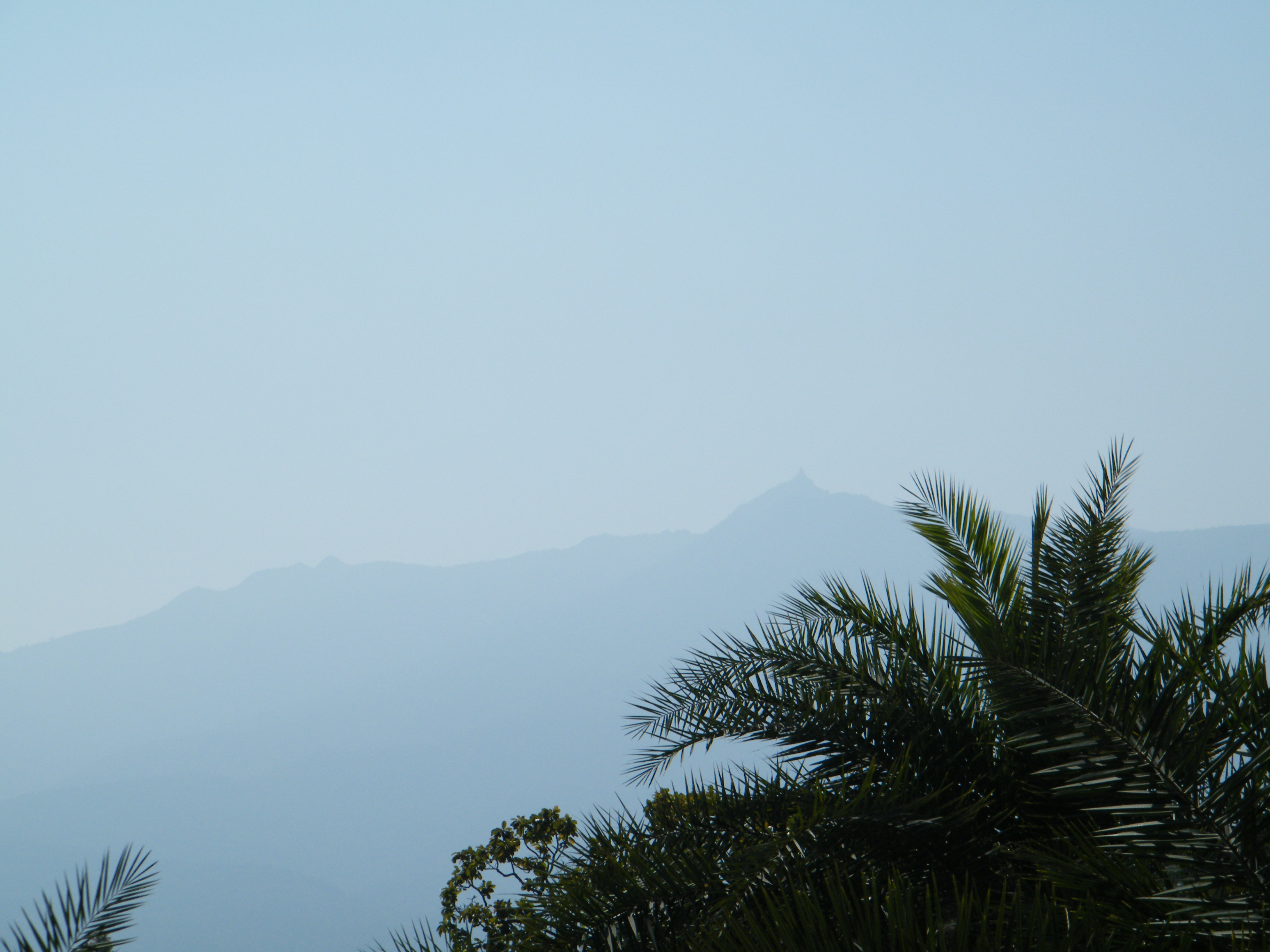 view of shikharji from road towards parasnath railway station